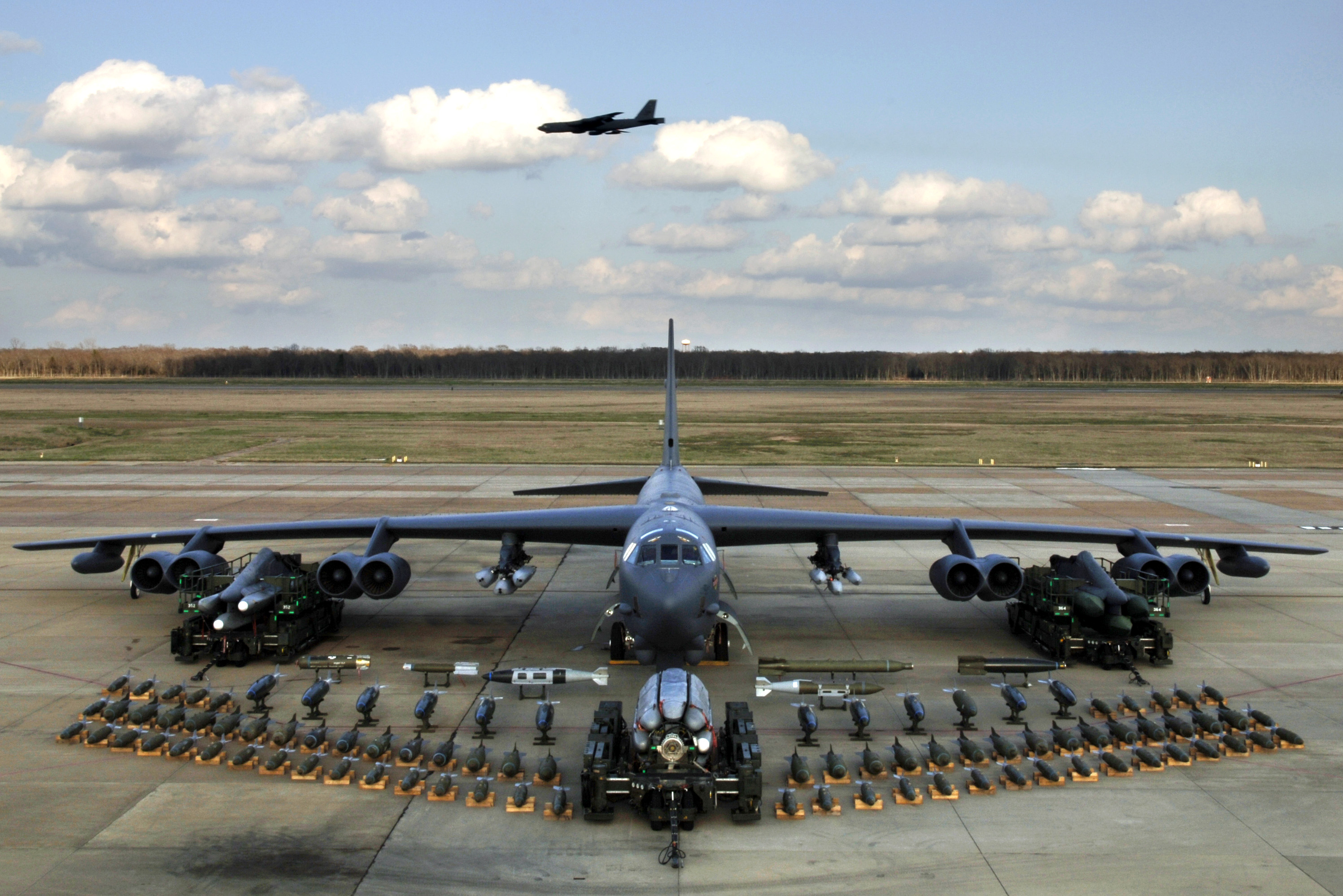 A U.S. Air Force Boeing B-52H Stratofortress of the 2d Bomb Wing static display with weapons, at Barksdale Air Force Base, Louisiana (USA), in 2006.